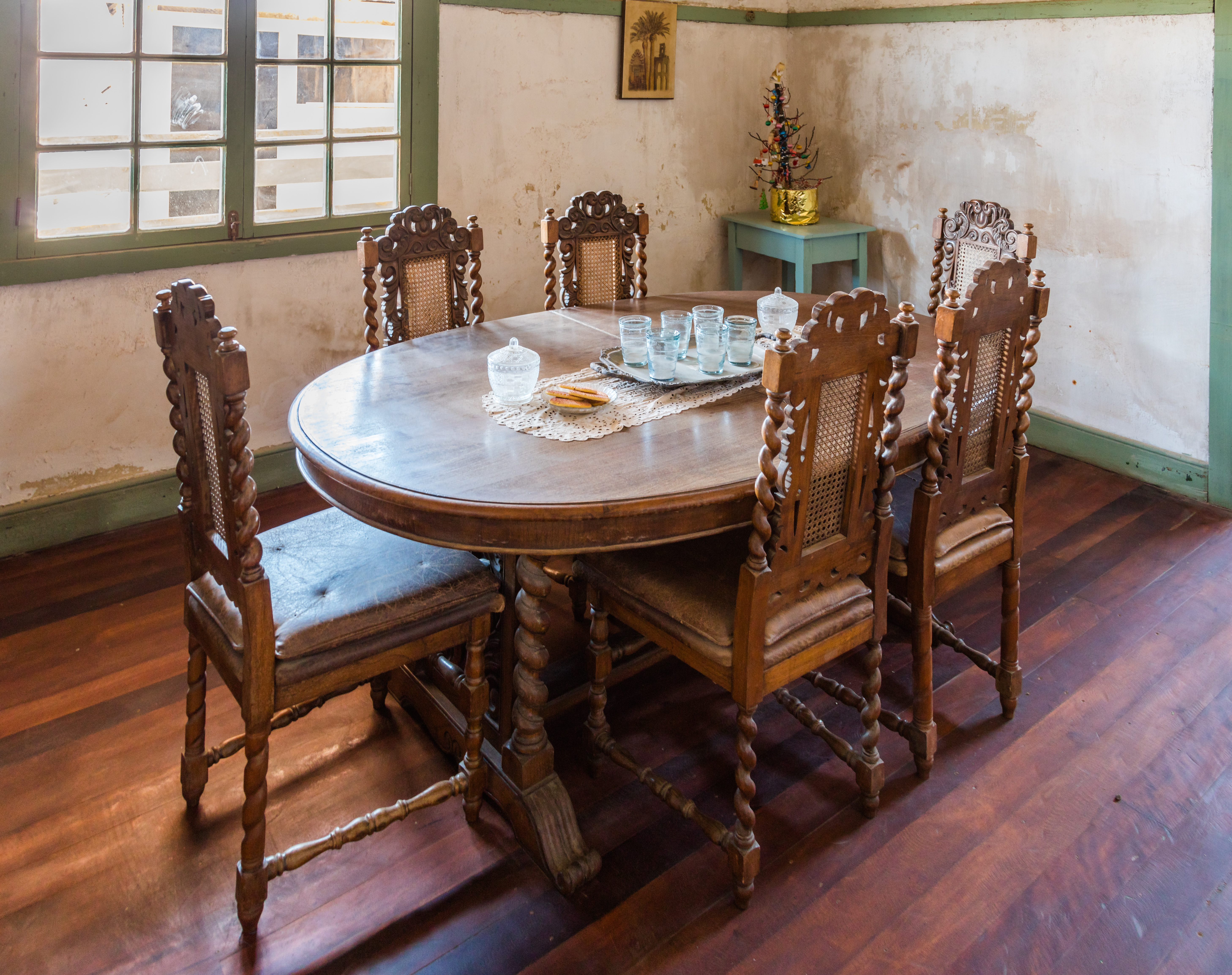 Humberstone and Santa Laura Saltpeter Office, Chile